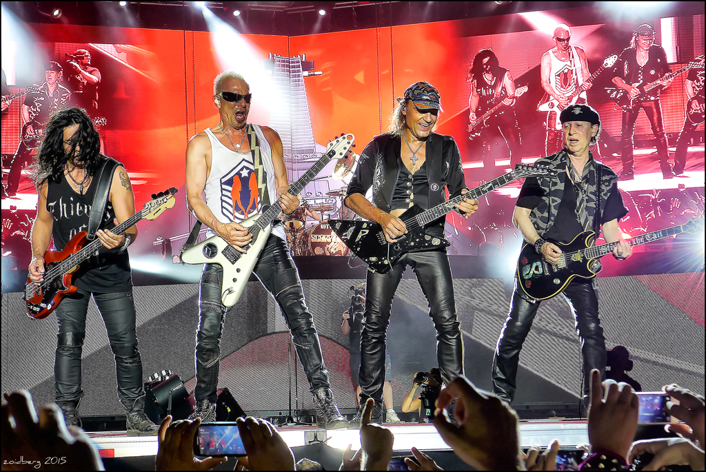 live RockFest Barcelona, 23/7/2015